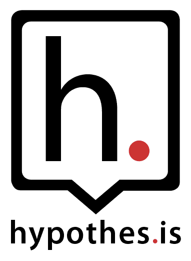 Logo of Hypothes.is, an open-source software project that aims to collect comments about statements made in any web-accessible content, and filter and rank those comments to assess each statement's credibility.